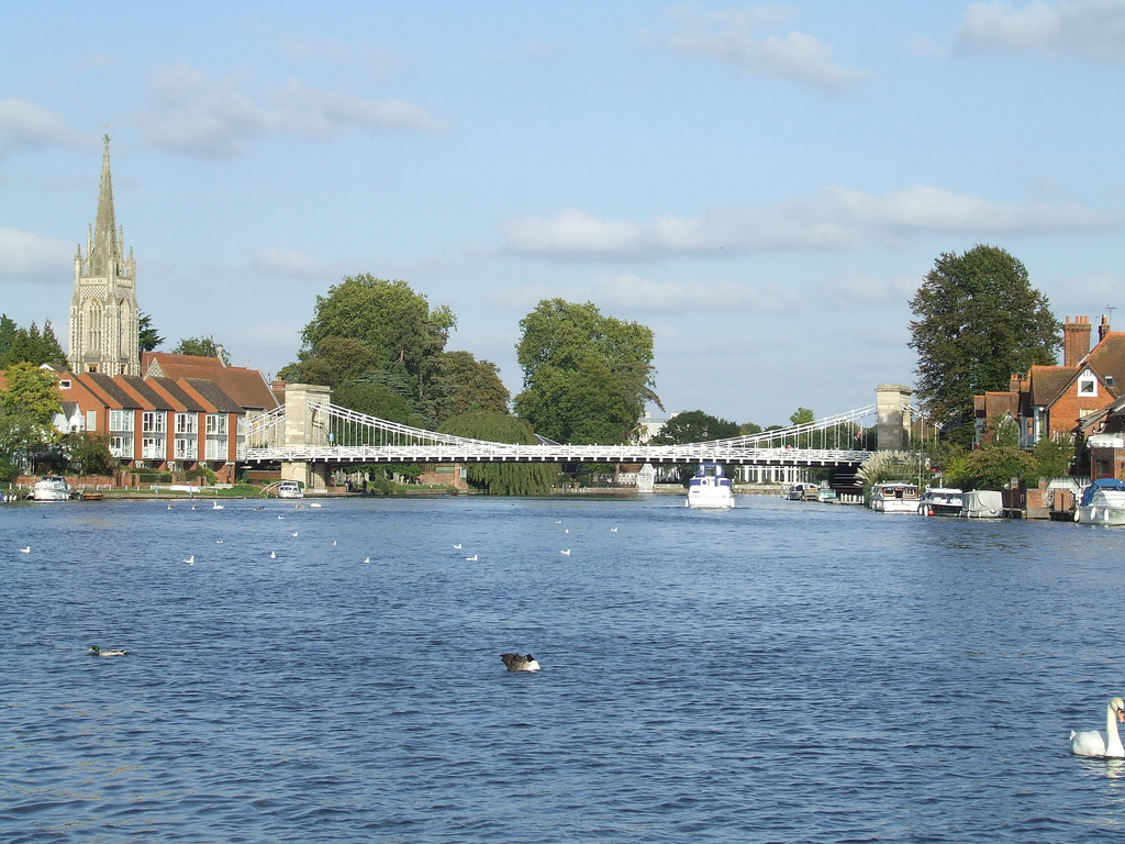 The suspension bridge over the Thames river and All Saints church in the town of Marlow, Buckinghamshire, England.